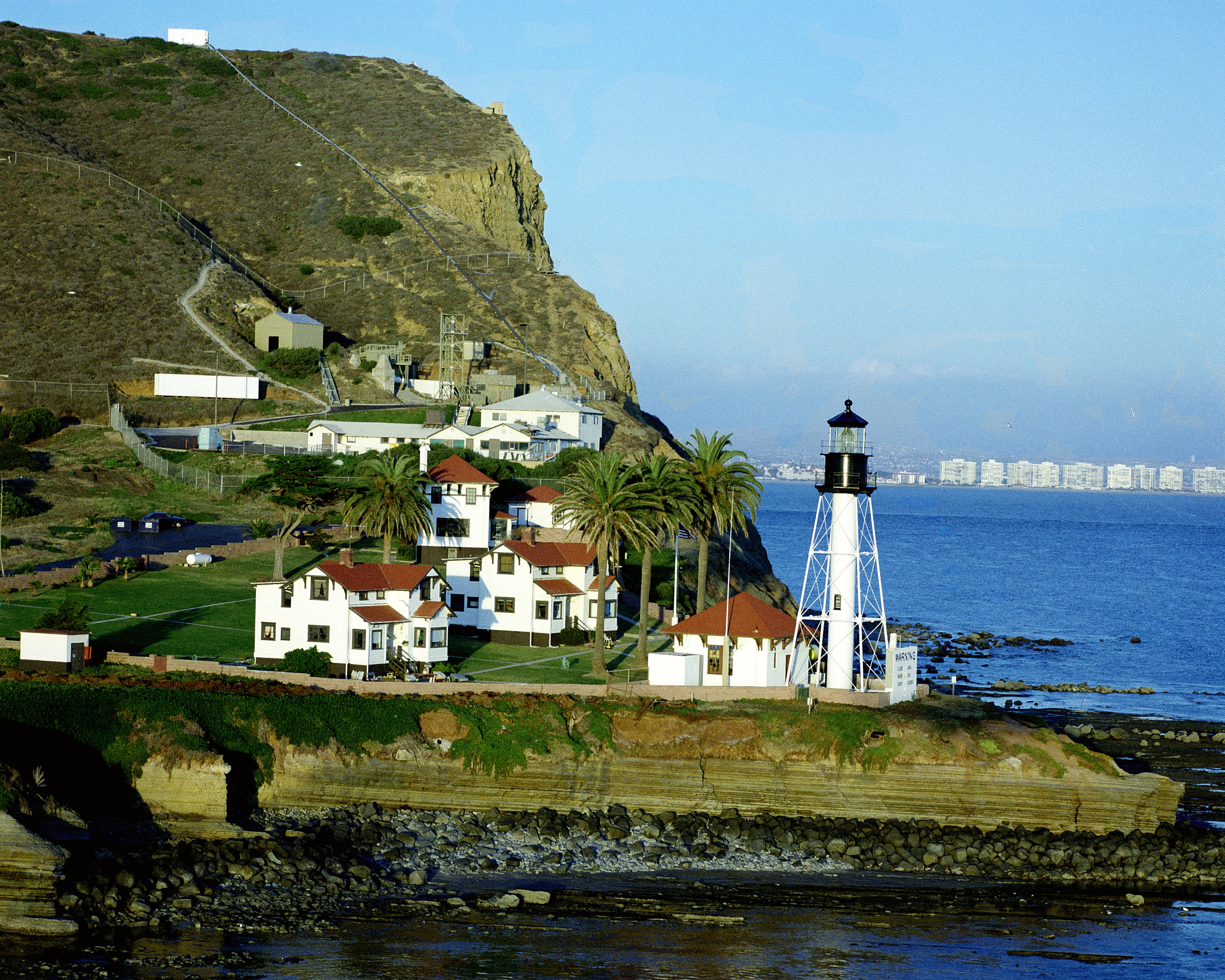 A view of the LIGHTHOUSE at Point Loma.